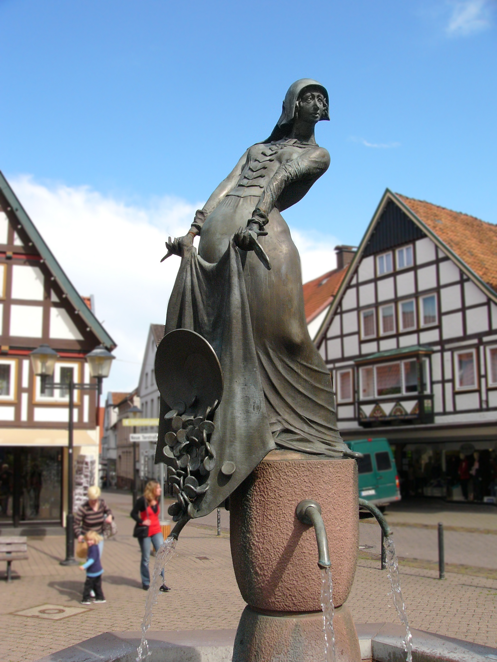 Alheyd fountain on the market place in Blomberg, Germany